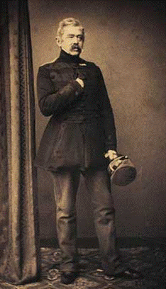 Danish naval officer Søren Christian Barth (1803-1895)